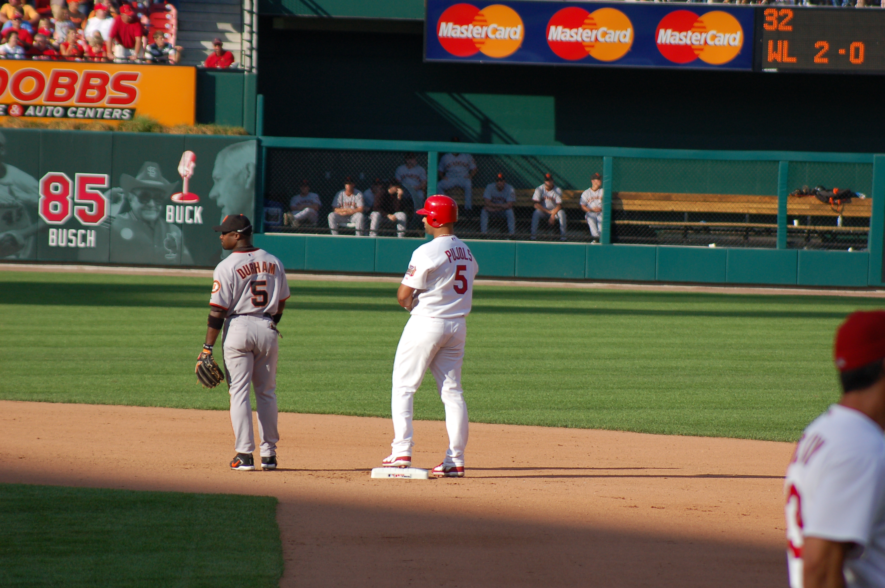 Albert Pujols stands on second base after hitting a double.